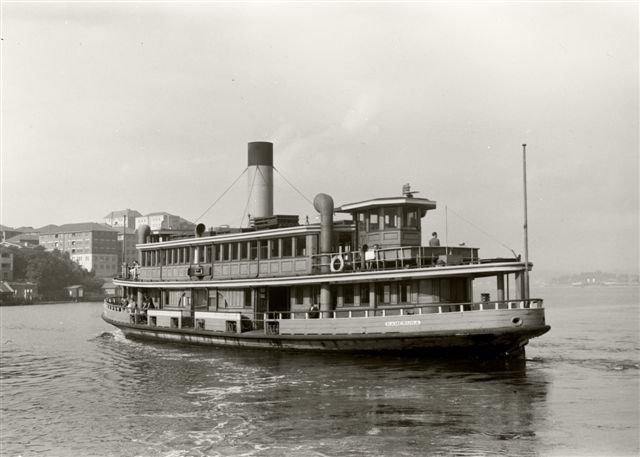 Sydney Ferry Kameruka as steamer before 1954 conversion to diesel with her 1930s livery